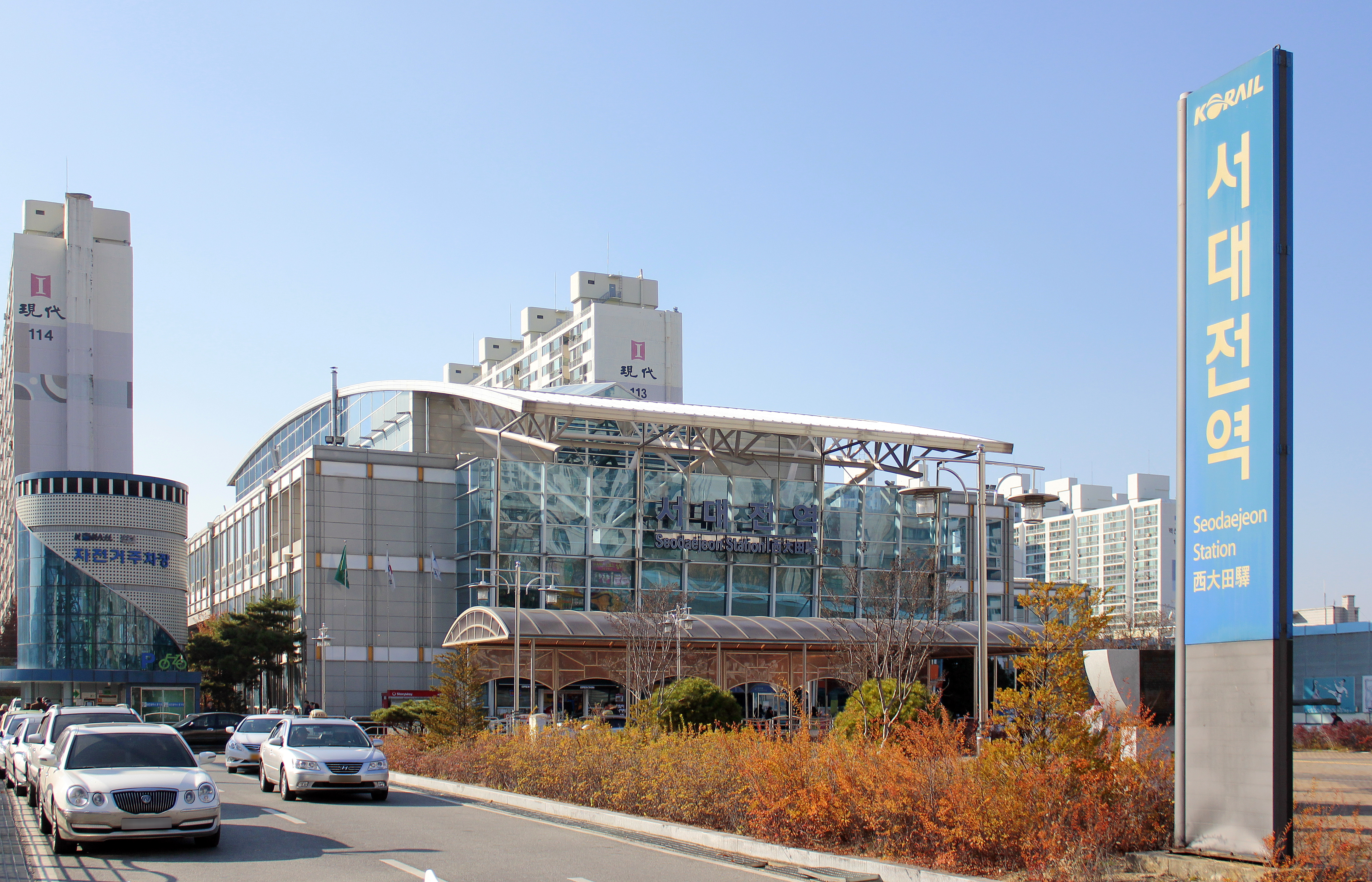 18 Nov 2014